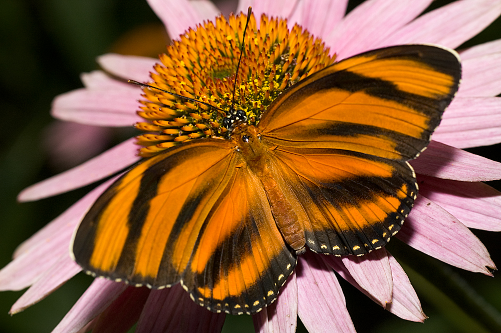 Shot at the Minnesota Zoo's Butterfly Exhibit. Image of the Dryadula phaetusa Butterfly atop a Purple Coneflower. 135mm (3.8x) effective focal length. Copyright © 2005 by April King, aka Marumari, donated to Wikipedia under the GFDL.